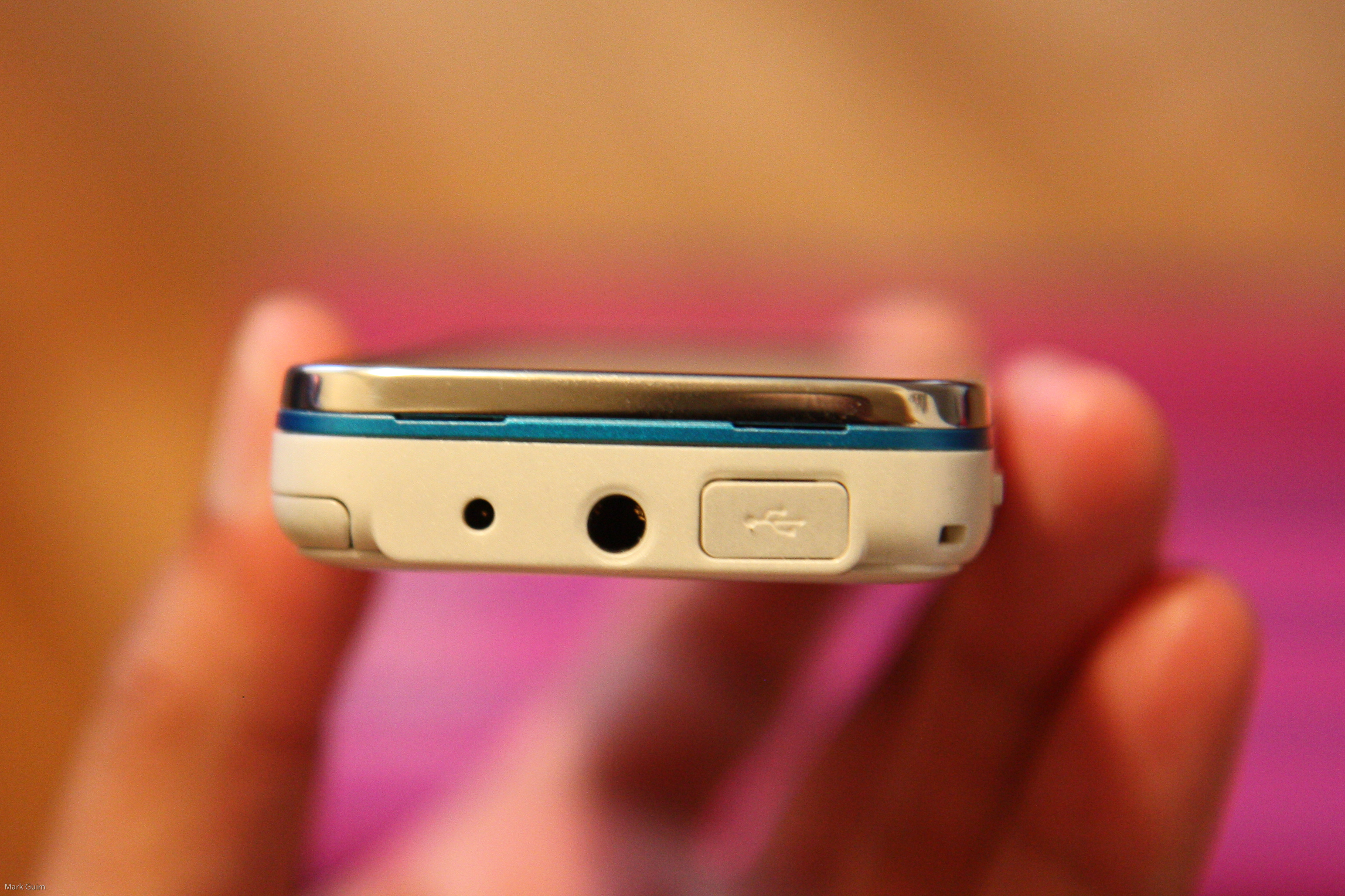 Nokia 5530 down side